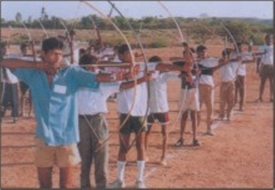 Archery competition conducted by Vanavasi Kalyan Ashram for tribal